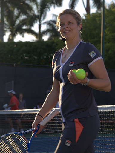 Kim Clijsters at the 2010 Sony Ericsson Open